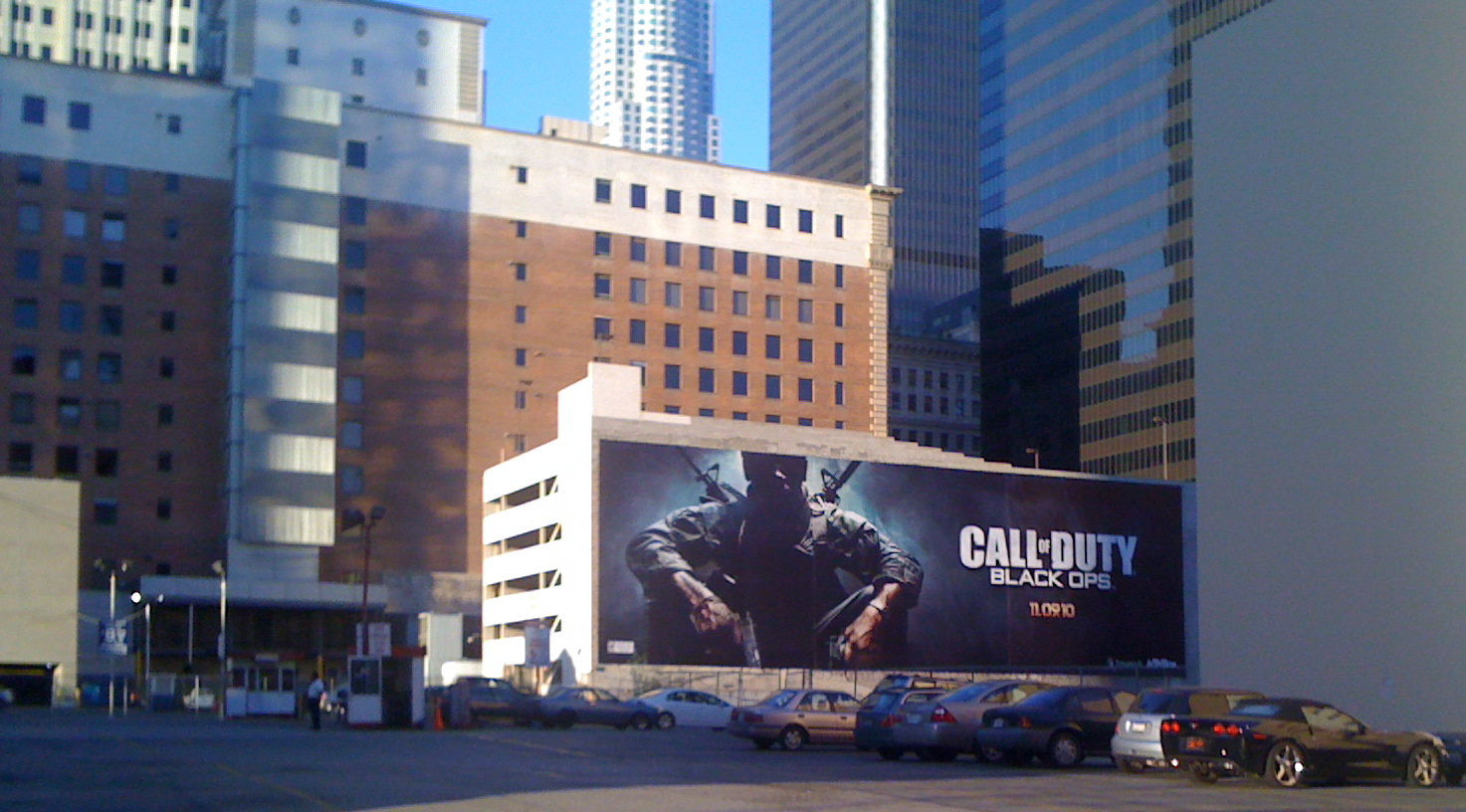 Call of Duty: Black Ops billboard.